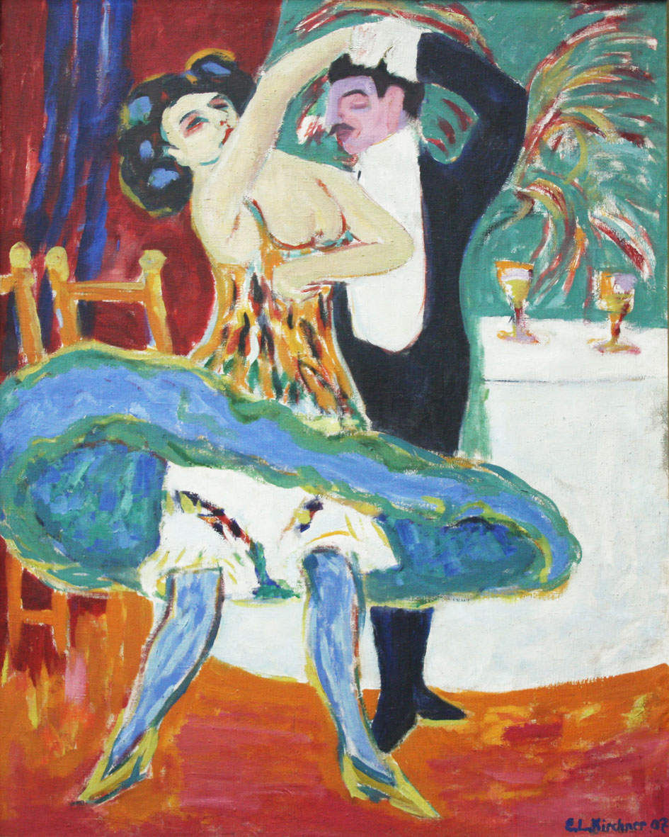 Varieté - English dance couple